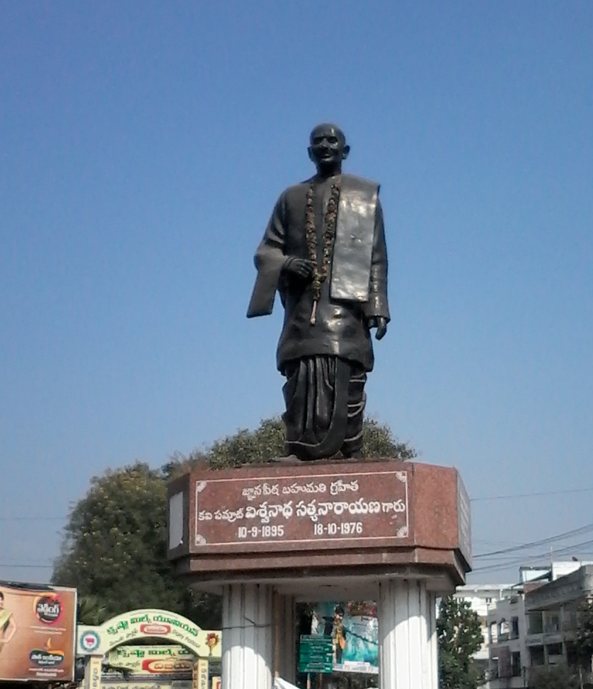 statue of viswanatha satyanarayana, gnanpeet, sahitya akademy awards winner, at vijayawada lenin center